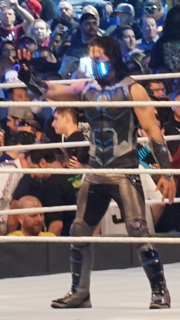 Mustafa Ali in April 2018 at WrestleMania 34.